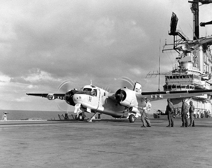 A U.S. Navy Grumman S-2E Tracker of Anti-Submarine Squadron 41 (VS-41) is ready for launching from aircraft carrier USS Bennington (CVS-20), 30 November 1967.